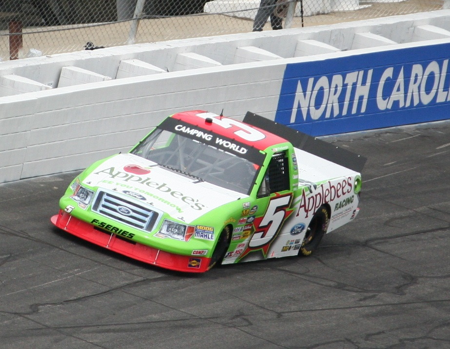 Tim George, Jr. drives the No. 5 Applebee's Ford for Wauters Motorsports in the North Carolina Education Lottery 200 at Rockingham Speedway, Rockingham, NC, April 14, 2013